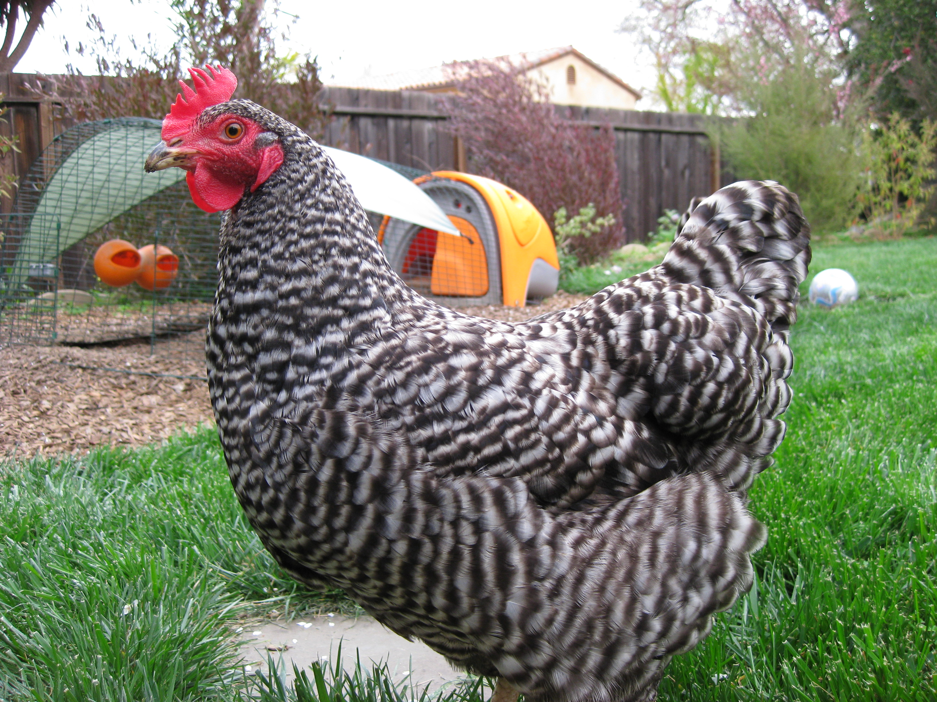 A Barred Rock hen as part of a small backyard flock. Note Eglu (commercially produced small hen hut) in the background.